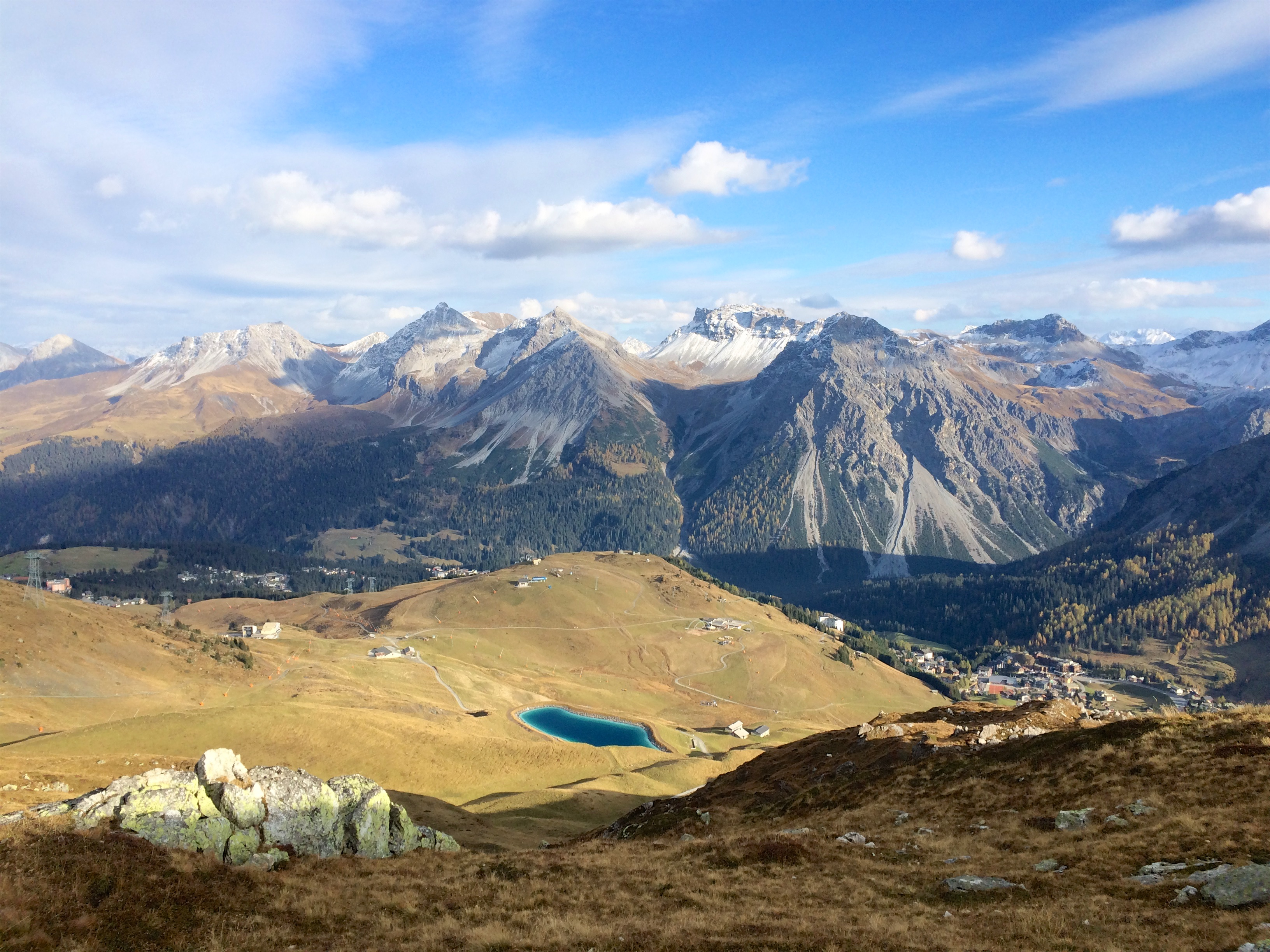 Tschuggen with Arosa Dolomite Mountains, Arosa/Switzerland